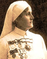 Safiye Ali (1891-1952), first female doctor in Turkey; Treated war-wounded in the Turkish War of Independence, the Balkan Wars (of 1912/13), and in WWI.